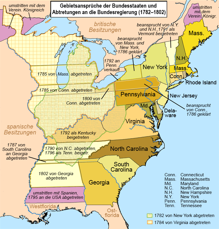 This is a map showing state land claims and cessions from 1782-1802 that I made.The disputed territory between New Hampshire and New York formed, in 1777, the independent country of 'New Connecticut' (later renamed 'Vermont') which eventually gained admission as the 14th state in 1791. Boundary disputes between states that were resolved before U.S. independence are not shown.